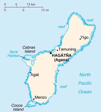 Guam map small